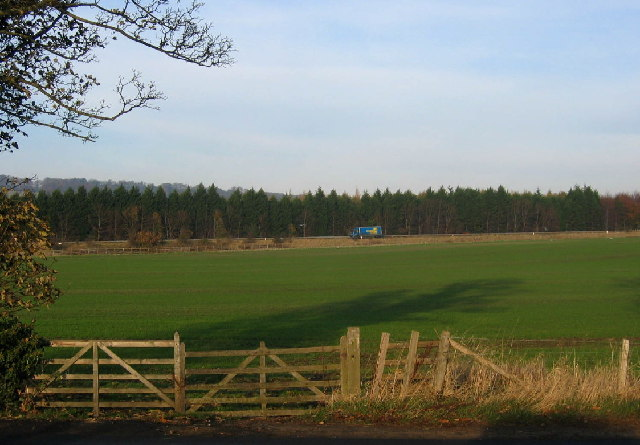 Field, A69 and Red House Plantation, Corbridge. Taken from the entrance to the Corstopitum Roman site looking north.